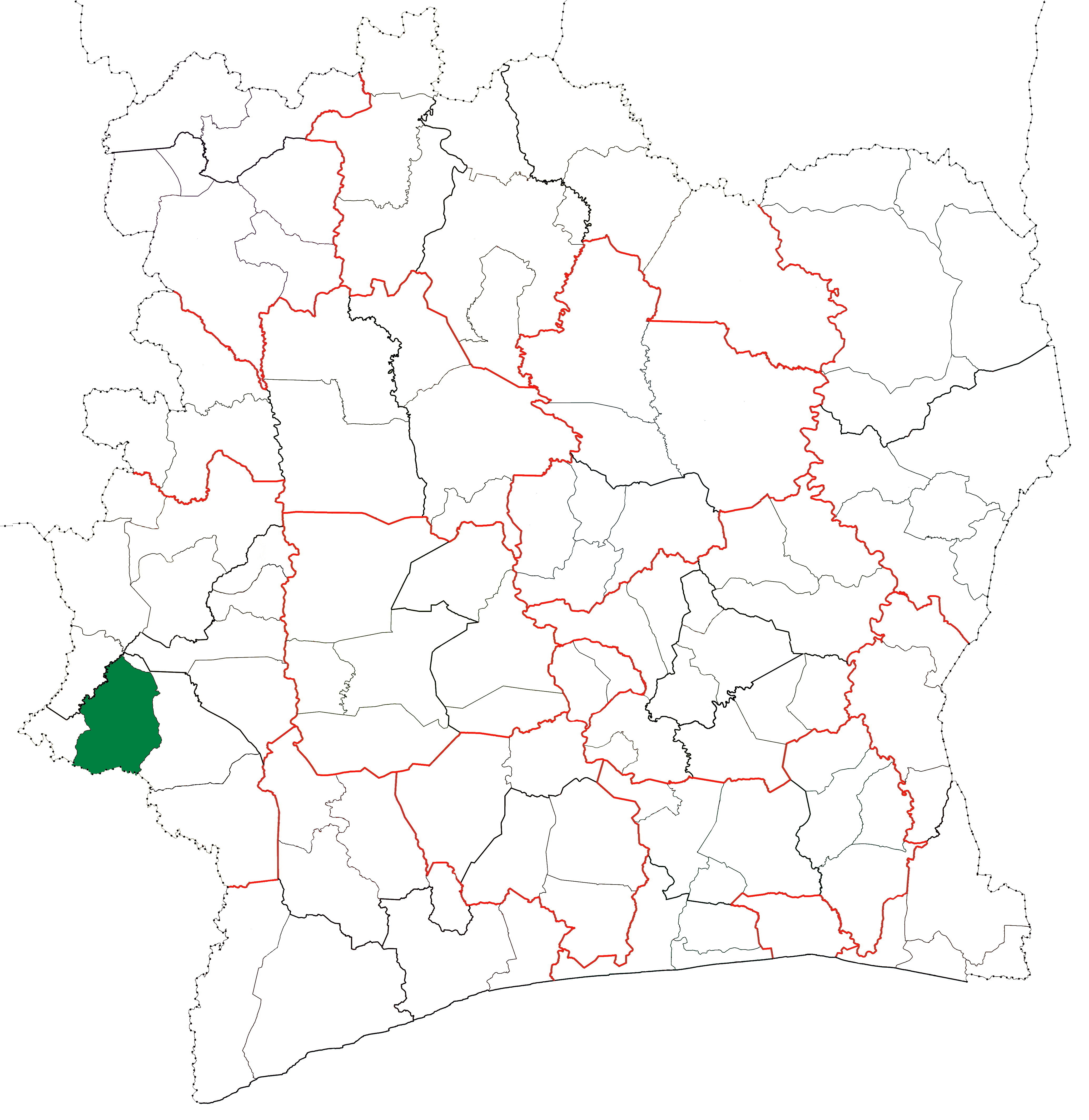 Locator map for Bloléquin Department in Côte d'Ivoire.